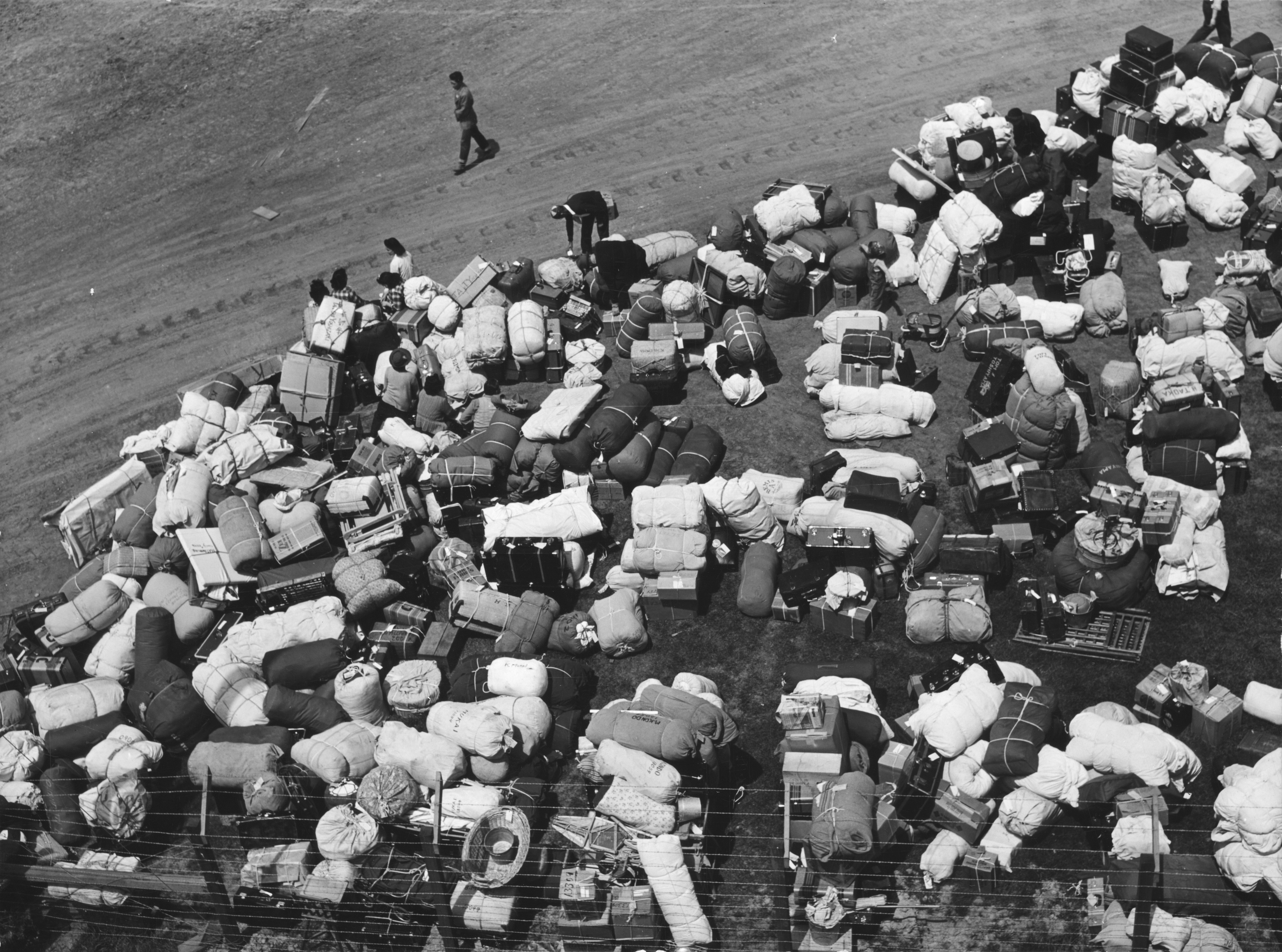 Los Angeles (vicinity), California. Baggage of Japanese-Americans evacuated from certain West coast areas under United States Army war emergency order, who have arrived at a reception center at a racetrack.